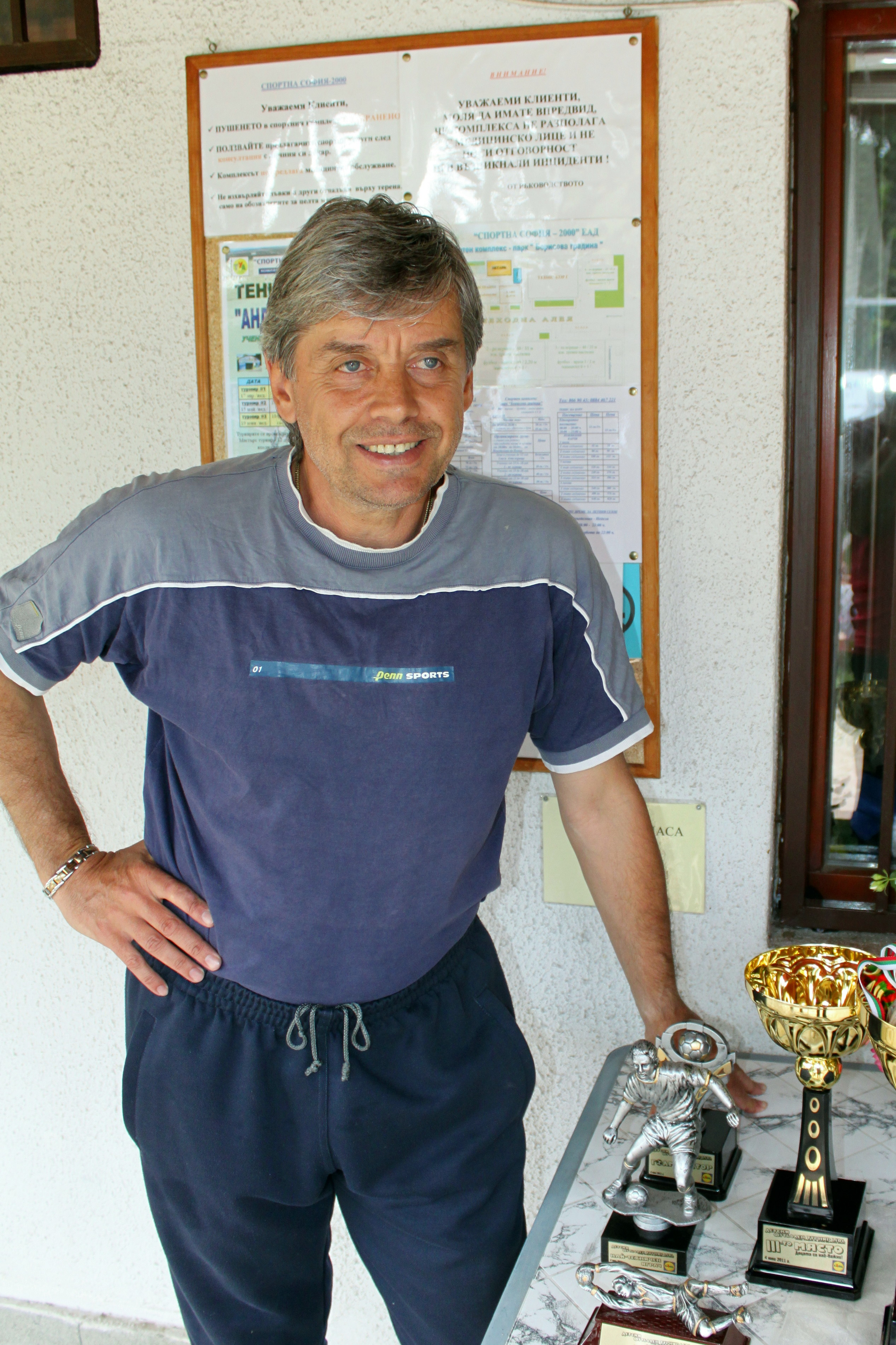 Emil Spasov (Bulgarian: Емил Спасов) (born 1 February 1956) was a Bulgarian football player. Played as a midfielder or striker, he started his career in Levski Sofia in 1974 and stayed in the club until 1988 with short breaks.